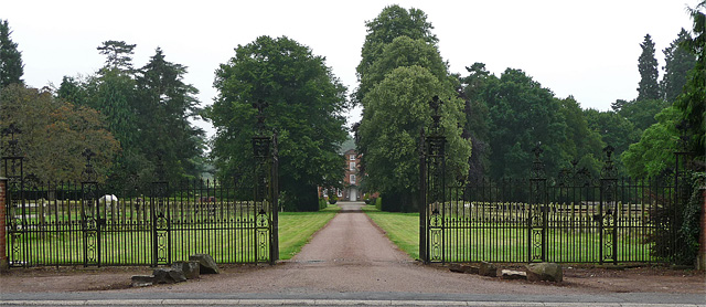 Gates near Henley. The fine early Georgian wrought iron gates and screen to Henley Hall (a sliver visible at the end of the drive). They were brought from Wirksworth Hall, Derbyshire in the late C19th (the latter was demolished in 1922). Grade II listed.